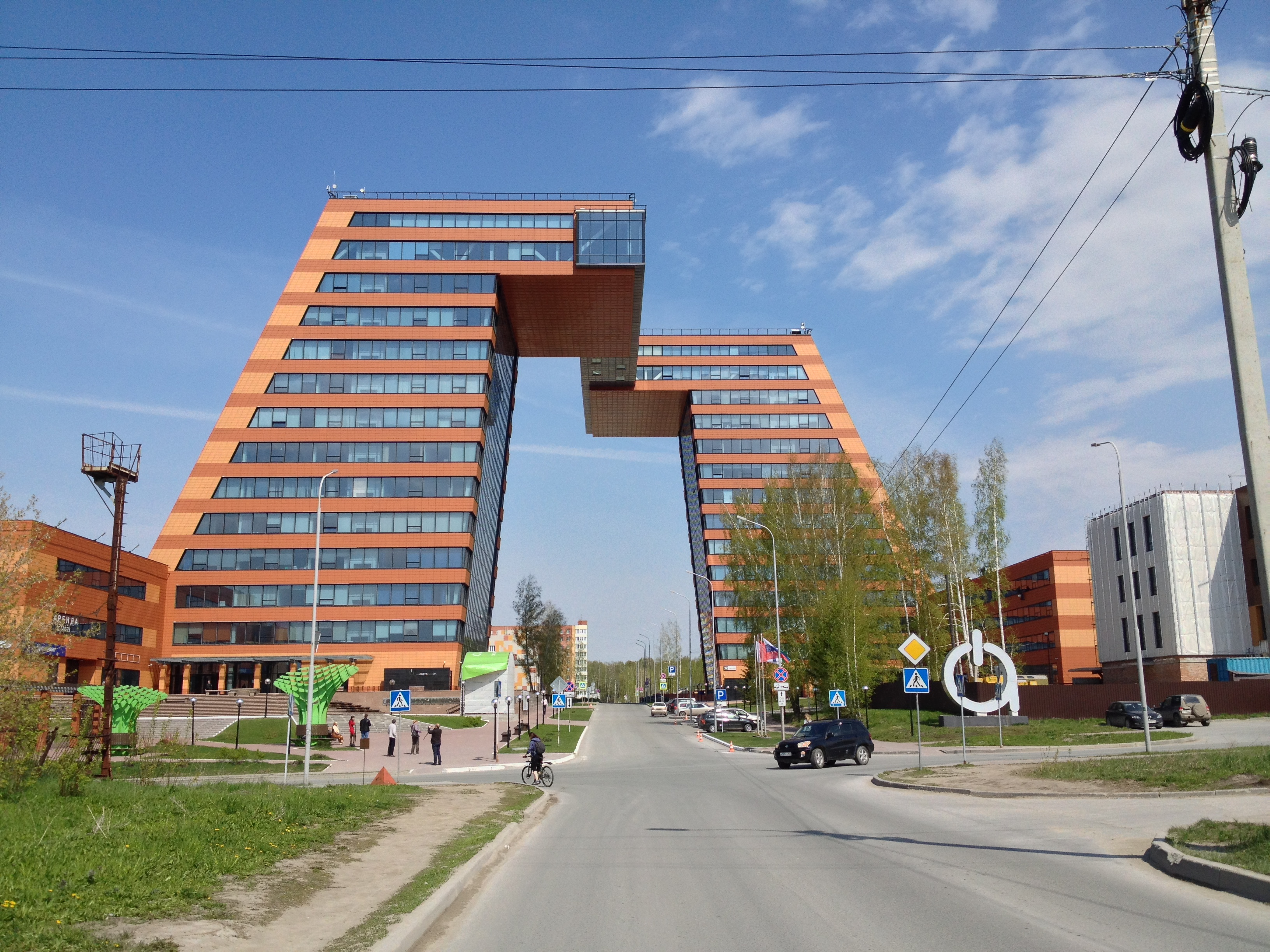 Technopark in Novosibirsk Akademgorodok.